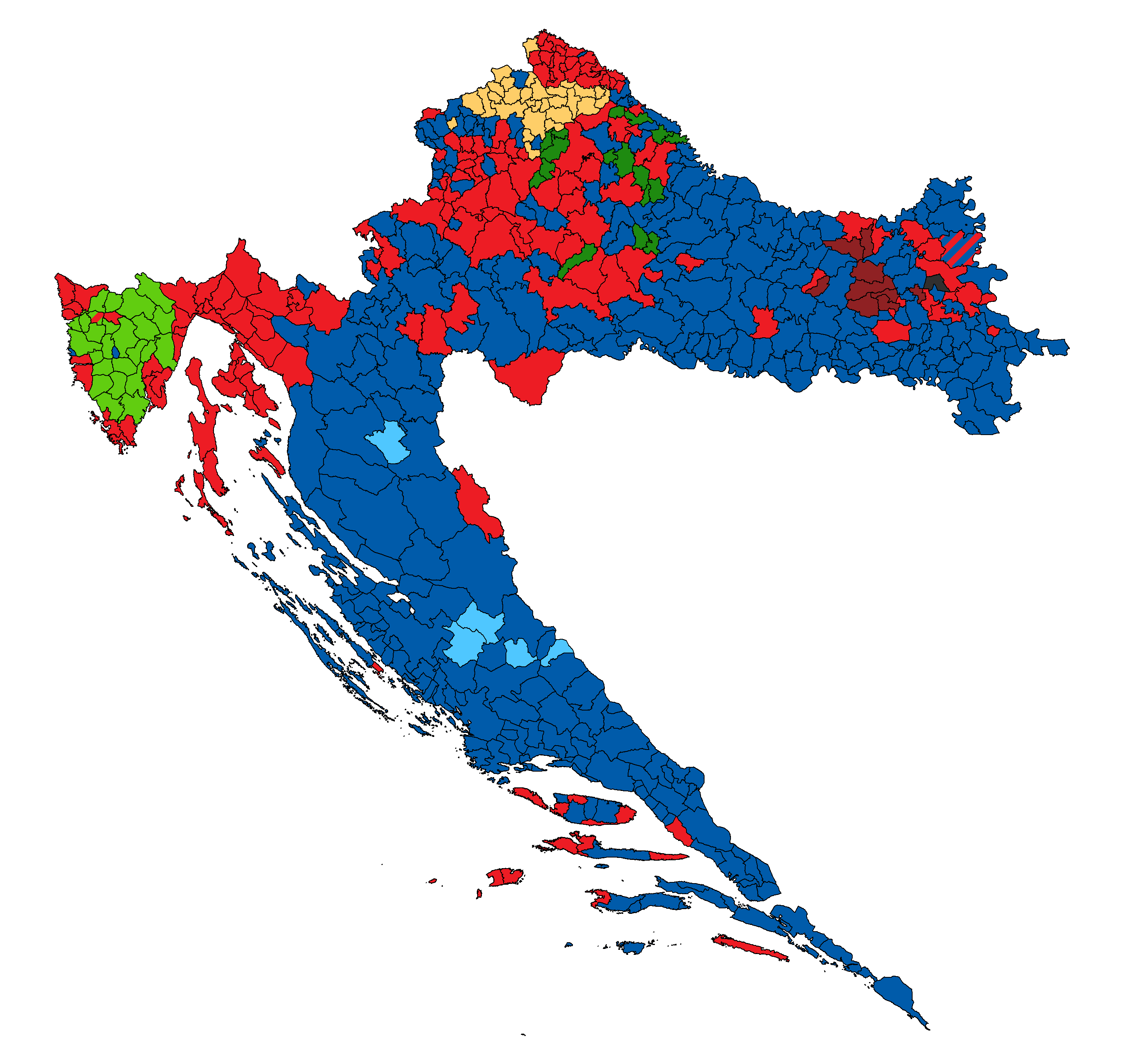 2007 election results for the Croatian Parliament, based on the majority of votes in each municipality of Croatia